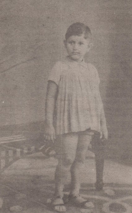 Upali Wijewardana as a kid,(deceased Sri Lankan well-known businessman & former Chairman of Upali Group) (1938-1983)